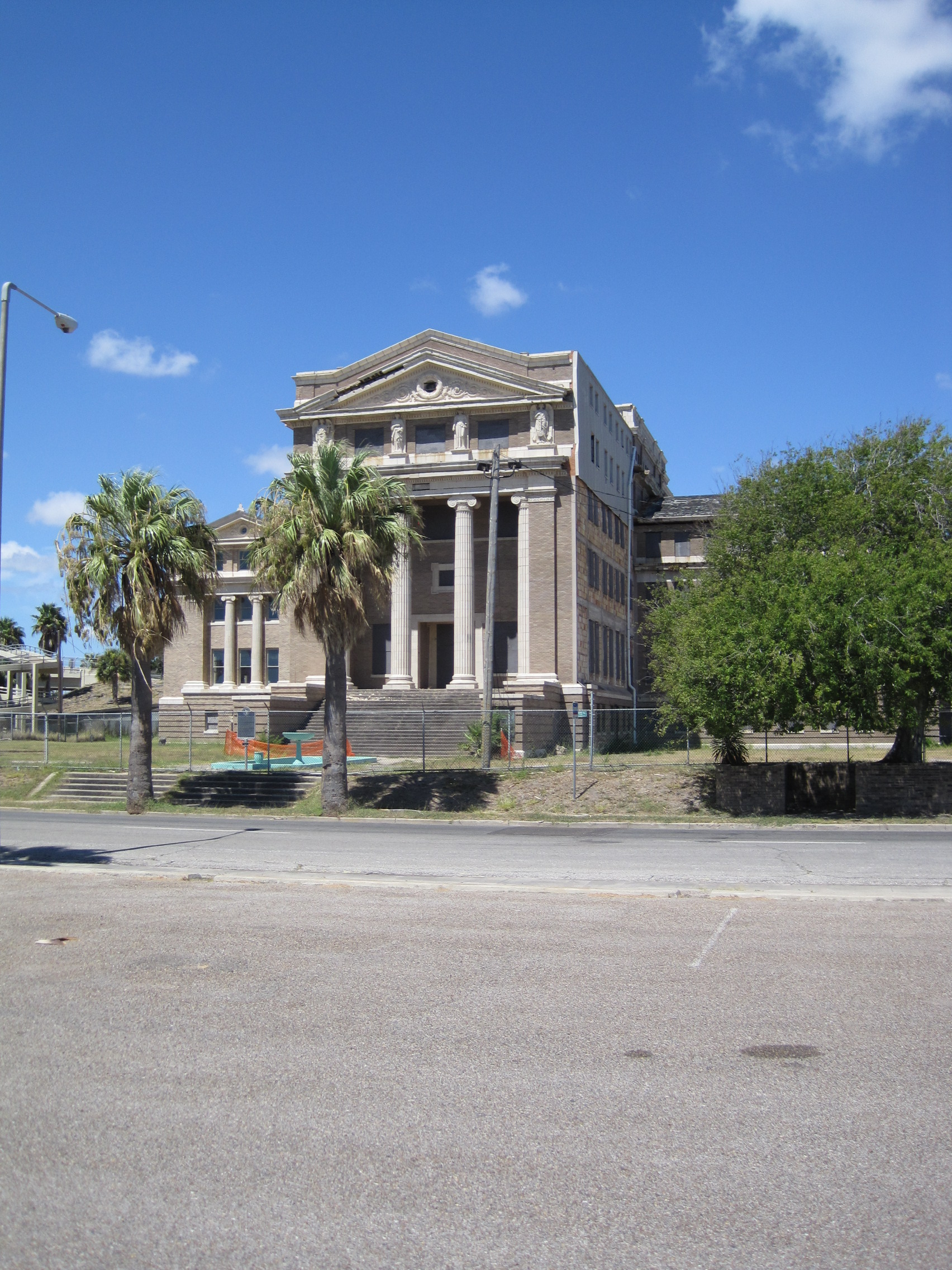 Image of the 1914 Nueces County Courthouse in Corpus Christi Texas. Site is on the National Register of Historic Places.